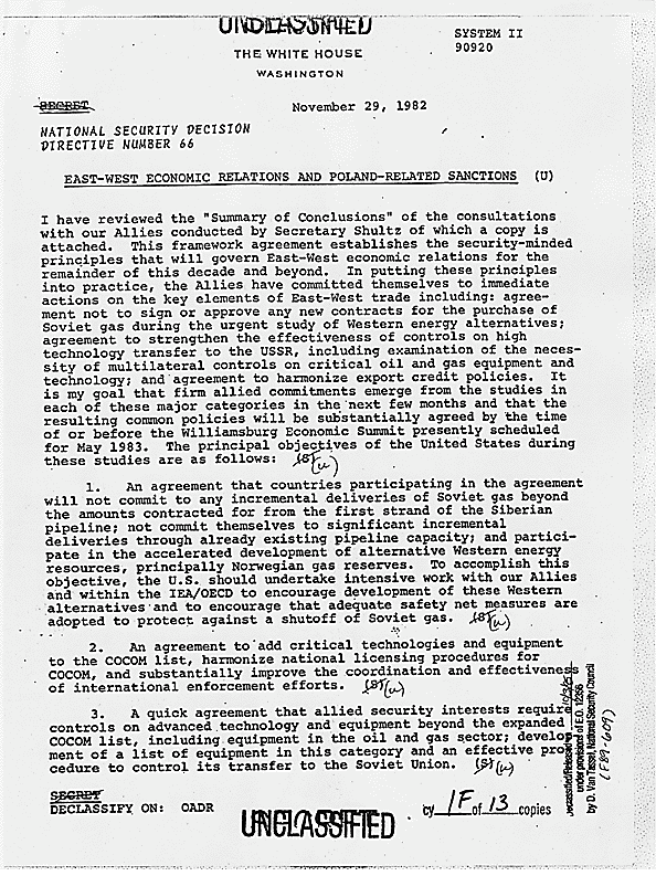 The document signed by Ronald Reagan that confirms the importance of petroeleum in the East-West relations.